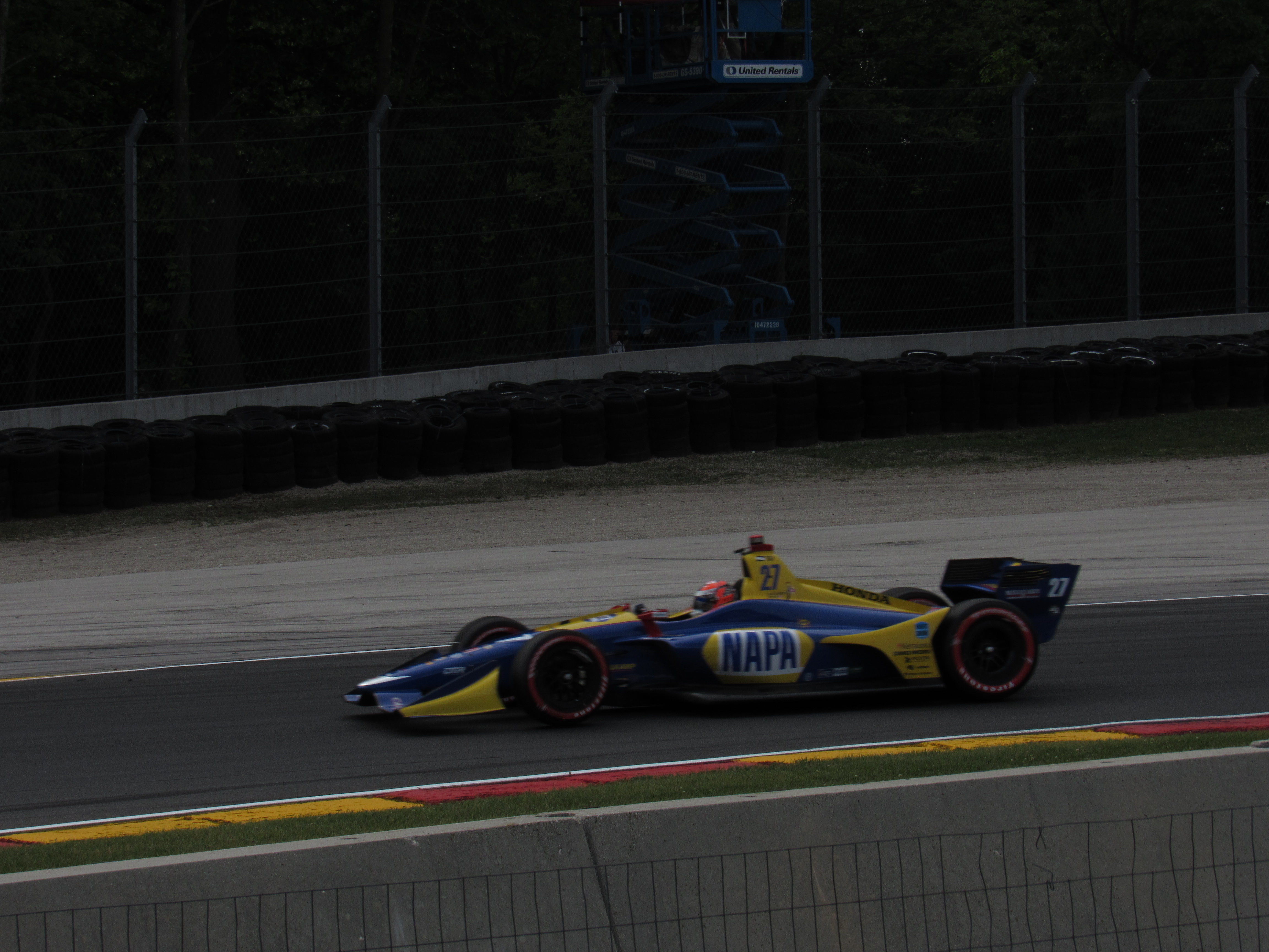 Alexander Rossi races his IndyCar around Road America during practice for the 2018 Kohler Grand Prix.